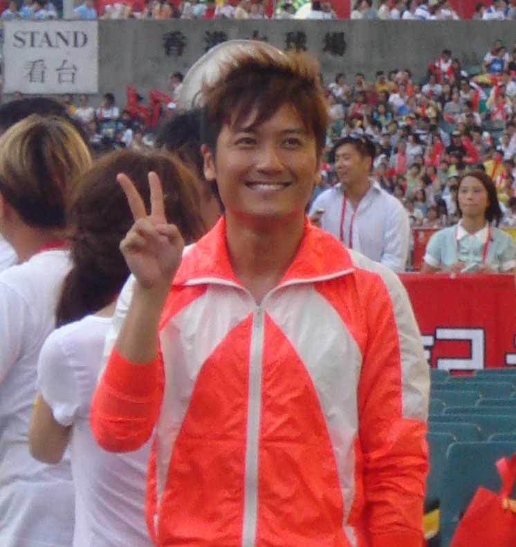 Zac Kao at Hong Kong Stadium.